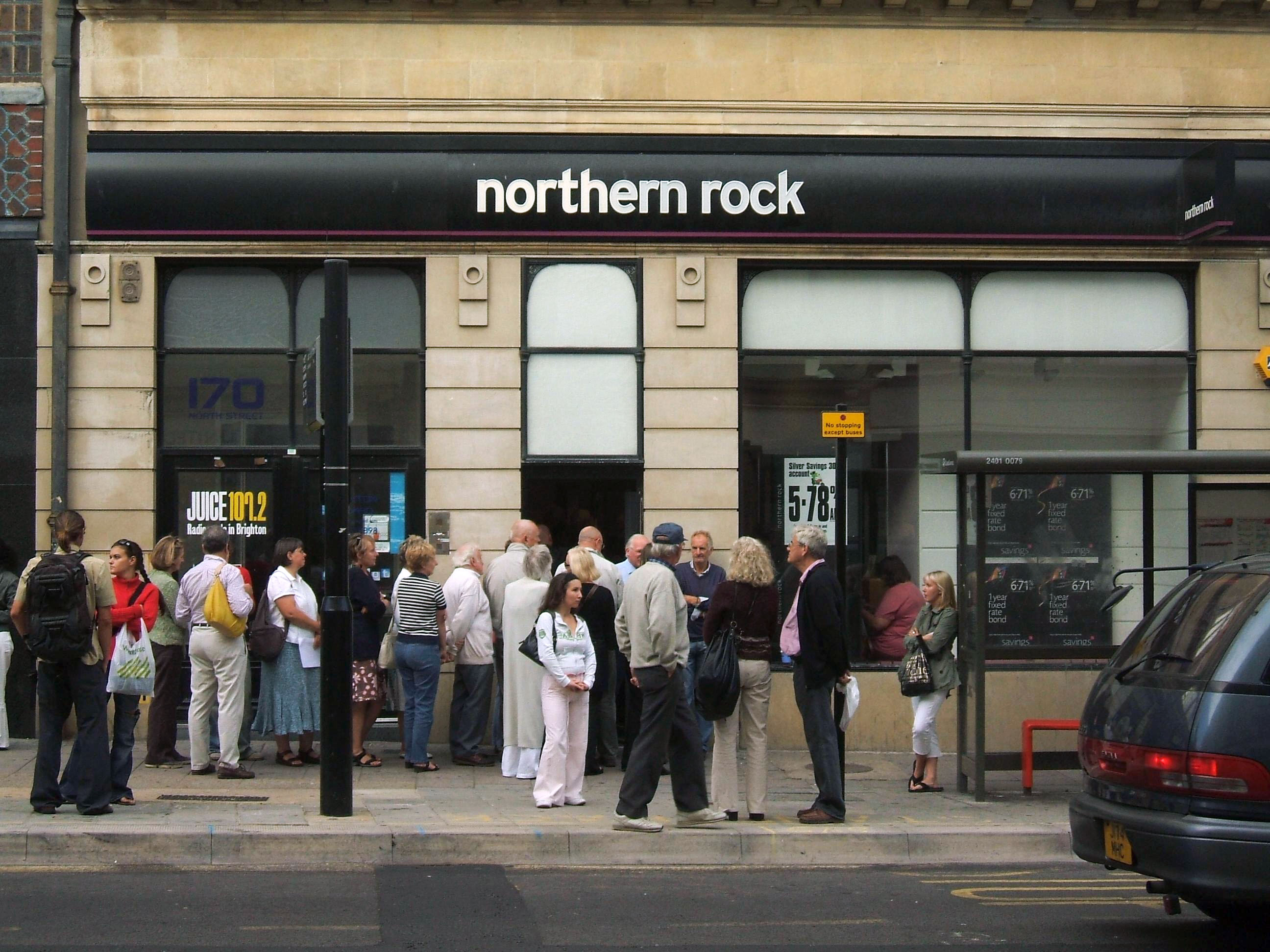 Small line of customers (presumably anxious investors and savers) outside a branch of Northern Rock - a Mortgage specialist and a top UK mortgage lender - in North Street, Brighton, East Sussex. The business (a former "savings and loan" type Building Society which was demutualised in 1997) has been affected in part by problems in the US "subprime" lending market. Picture taken late on Friday afternoon on 14th September 2007.